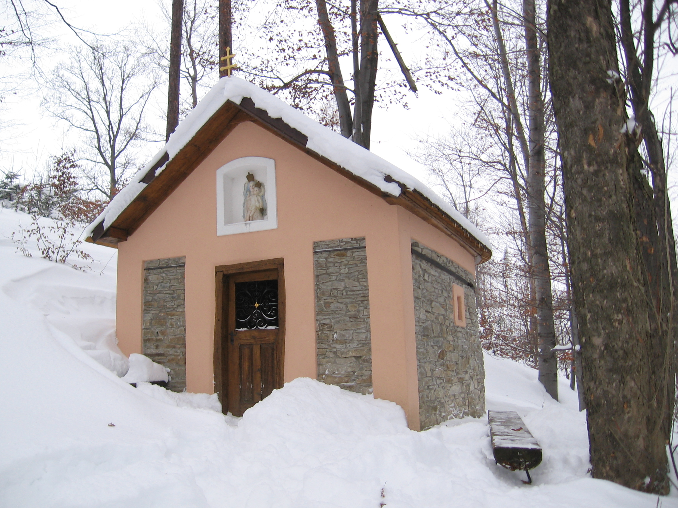 Our Lady of Loretto Chapel near Vrchy, Czechia.